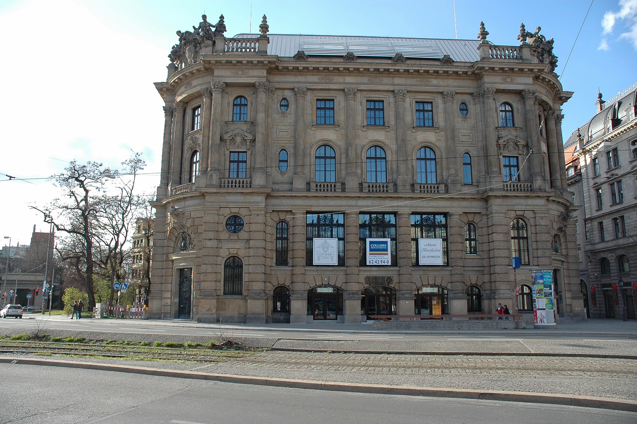 Former Stock Exchange Munich